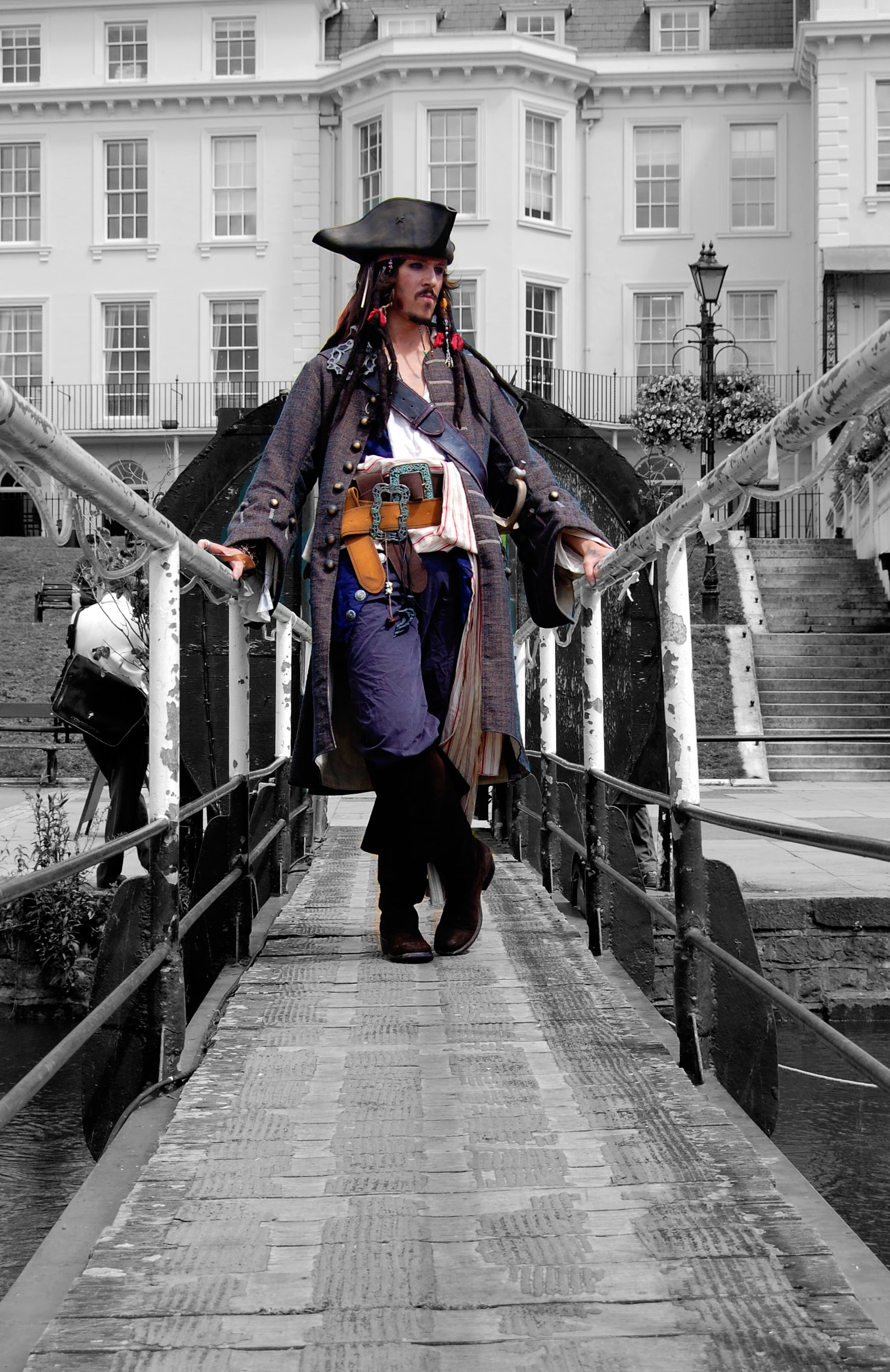 Jack_Sparrow's clone. Orginal description: not sure on the colour and black/white idea?